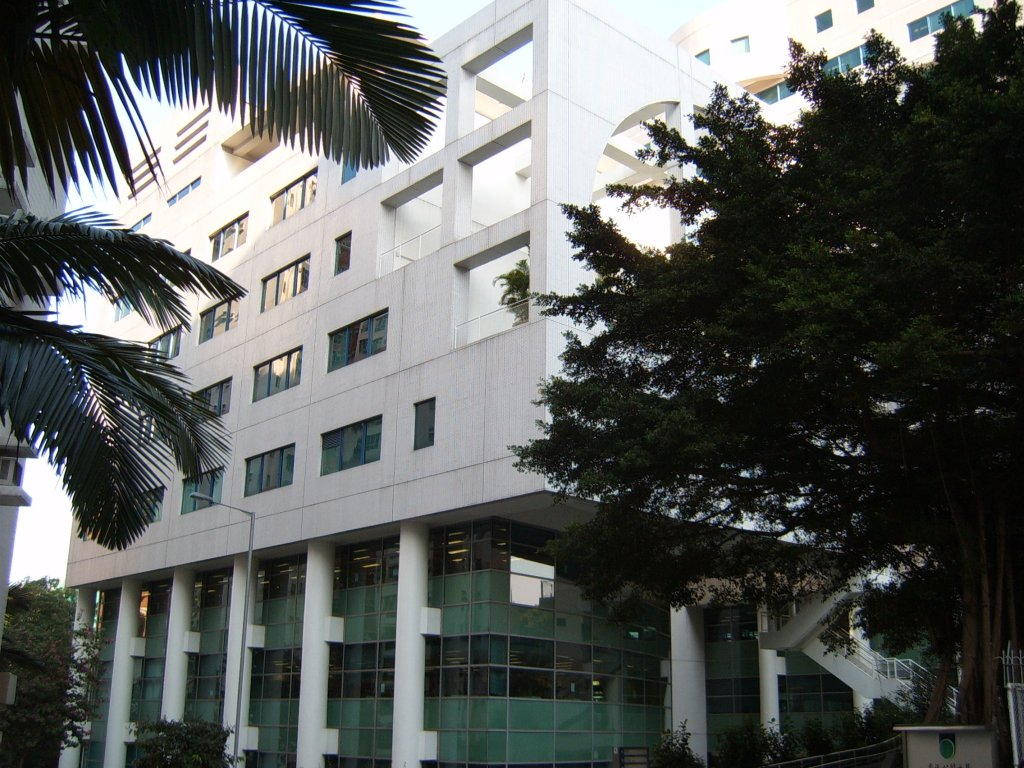 Open University of Hong Kong. Photo taken by myself (User:Sl) on November 2005. 香港公開大學，從何文田牧愛街拍攝。